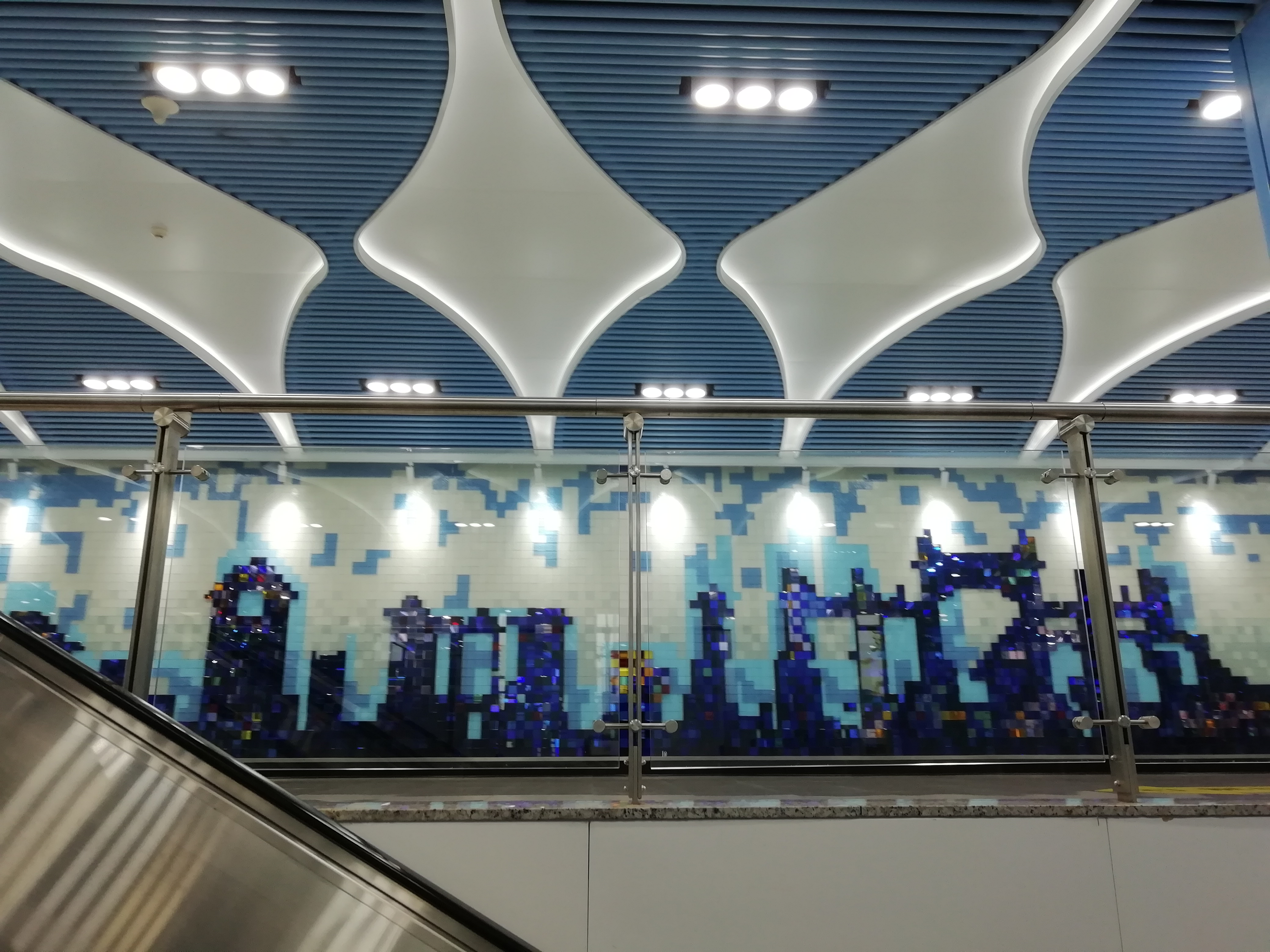 Art Wall of Chayuanchang Station of Line 4, Suzhou Rail Transit 中文（中国大陆）: 苏州轨道交通4号线察院场站站内的艺术墙